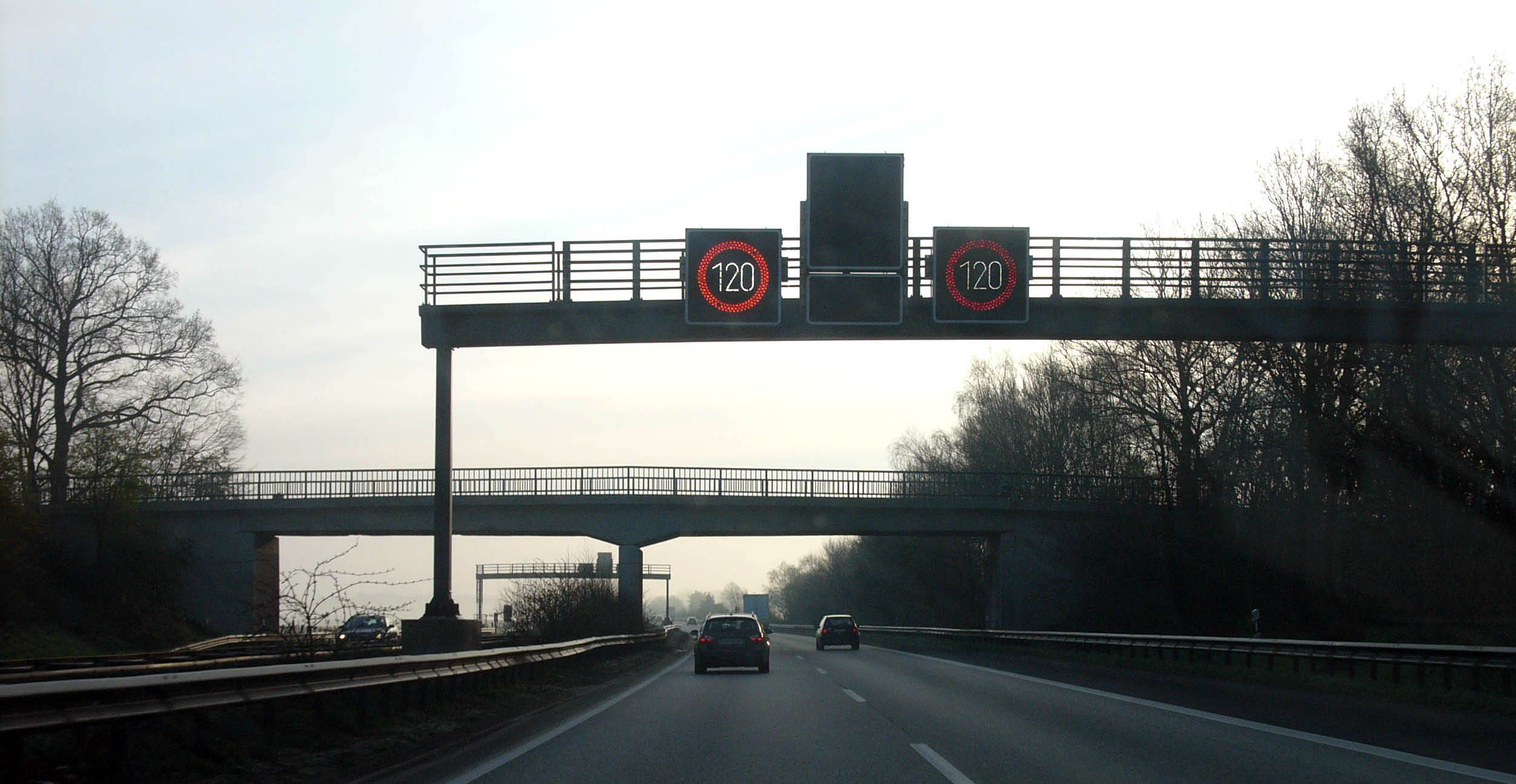 Autobahn close to Bremen. Speed was limited to 120 km/h close to the town in 2008